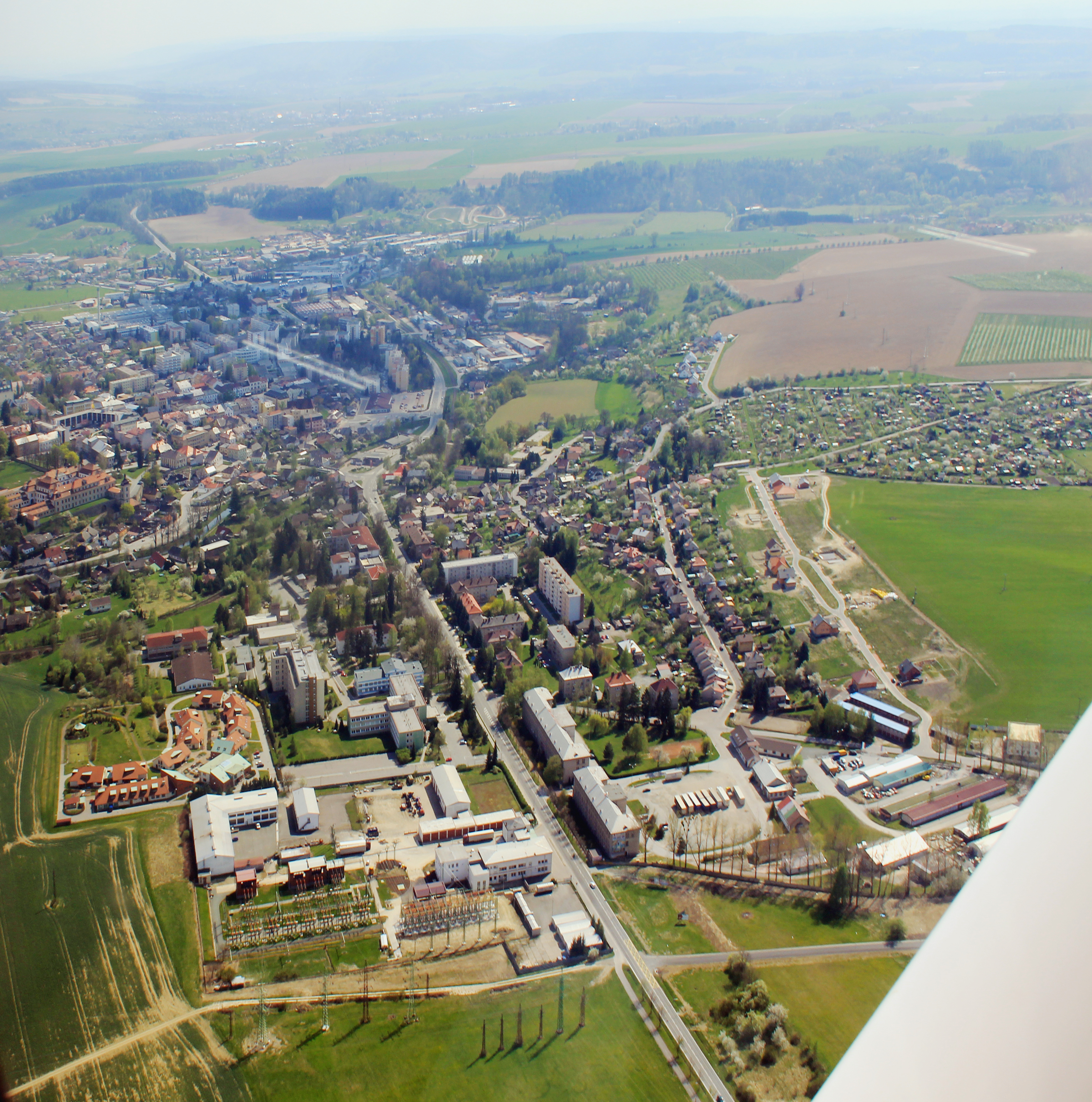 Town Rychnov nad Kněžnou from air, eastern Bohemia, Czech Republic